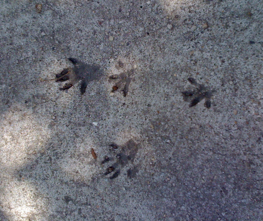 Tracks of the Eastern Gray Squirrel, bounding stride, in concrete. New York City.